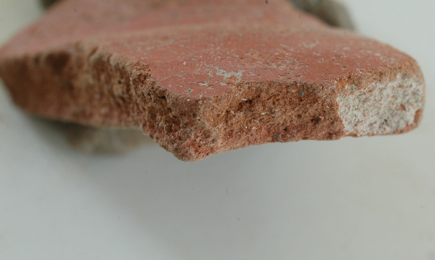 Nile d clay, according to the classification of ancient egyptian pottery